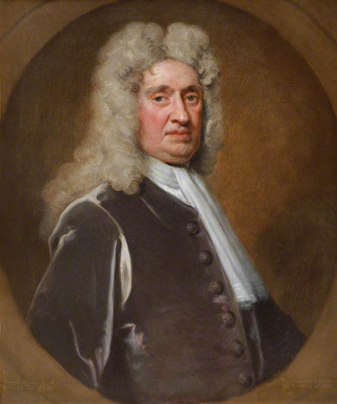 Portrait of Denzil Onslow